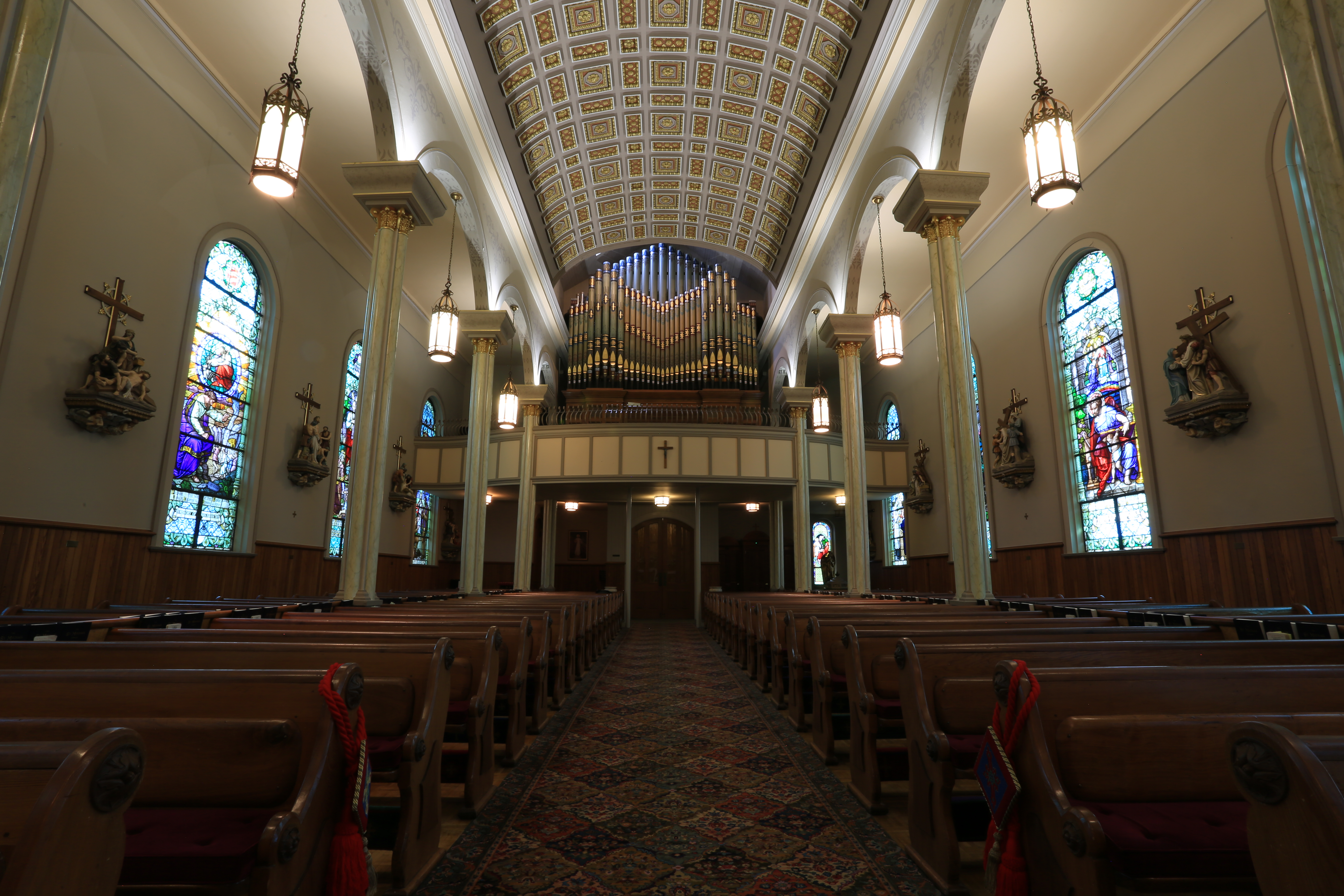 back wall of St. Peter Catholic Church (Montgomery, AL) featuring 1891 Kilgen pipe organ